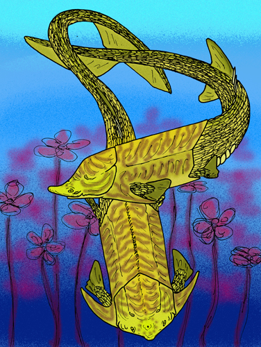 Restoration of Qilinyu rostrata, a "maxillate" placoderm from the late Ludlow epoch of Qujing, Yunnan